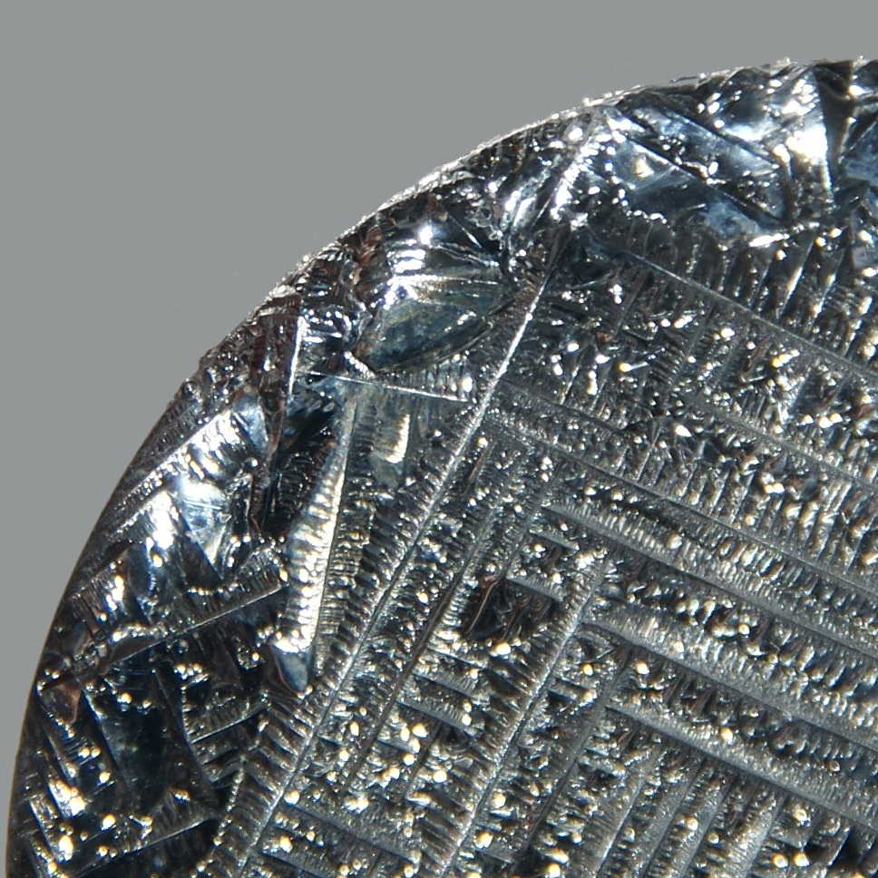 The semimetal tellurium is chemically similar to selenium. It is more metallic and somewhat less toxic than this, but its compounds smell even worse. Tellurium probably has no biological role and has only very few, special applications. It can form nice crystals and sometimes natively occurs in nature, however it is very rare. Tellurium is the element that most easily forms compounds with gold, therefore it sometimes accrues as waste at the extraction of gold.